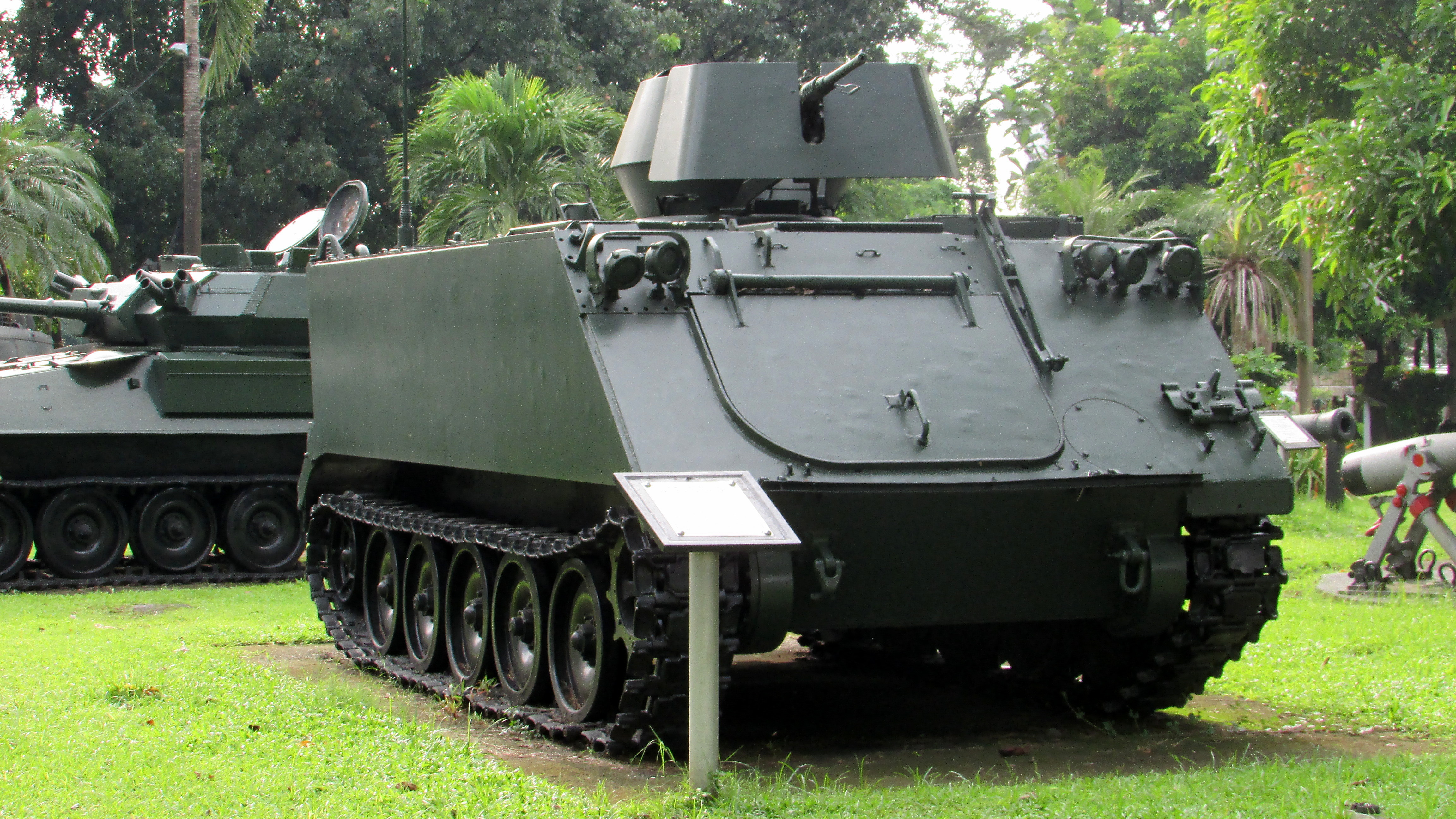 Front view of an M113 Armored Personnel Carrier of the Philippine Army. Photo taken at the Armed Forces of the Philippines Museum in Camp Aguinaldo.